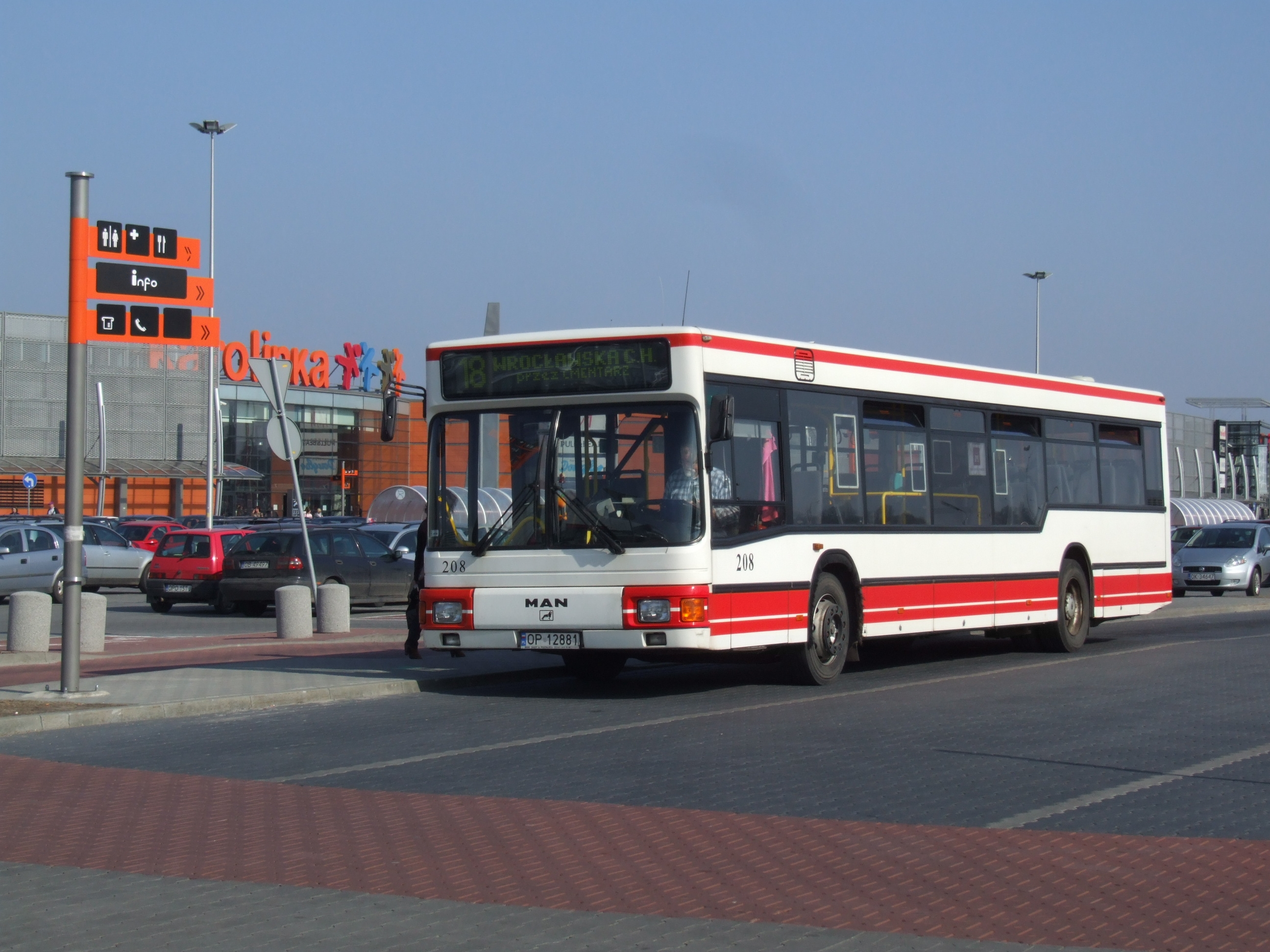 MAN 2x2 bus near shopping mall Karolinka in Opole, Poland. Built 2001, MZK Opole operator.